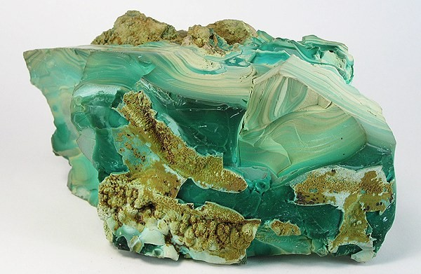 Chrysocolla Locality: Bisbee, Warren District, Mule Mts, Cochise County, Arizona, USA (Locality at ) Size: 12.2 x 5.5 x 5.2 cm. This amazingly large and rich specimen of chrysocolla came from an old European collection of American classics that was assembled by the 1960s and was being sold off at the Munich show 2008. It is just astonishing for its size: this is 4 cm thick of solid chrysocolla. You can clearly see the deposition bands along the sides, alternating from light cream color to a deep blue-green. There is very little matrix here - it is pretty much all chrysocolla.